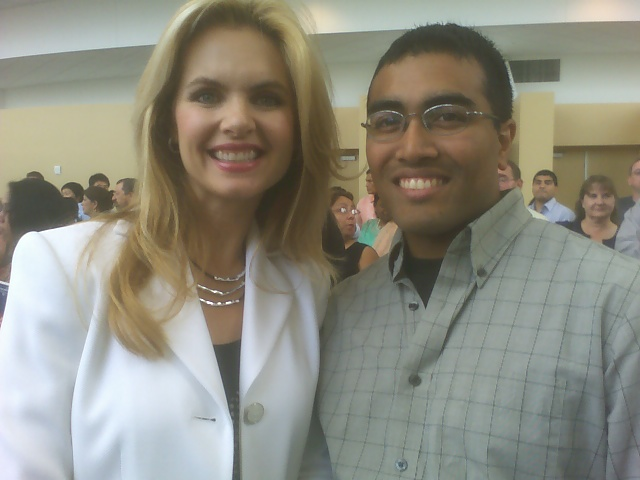 Hemant Mehta meets Victoria Osteen (wife of Pastor Joel Osteen) in 2006